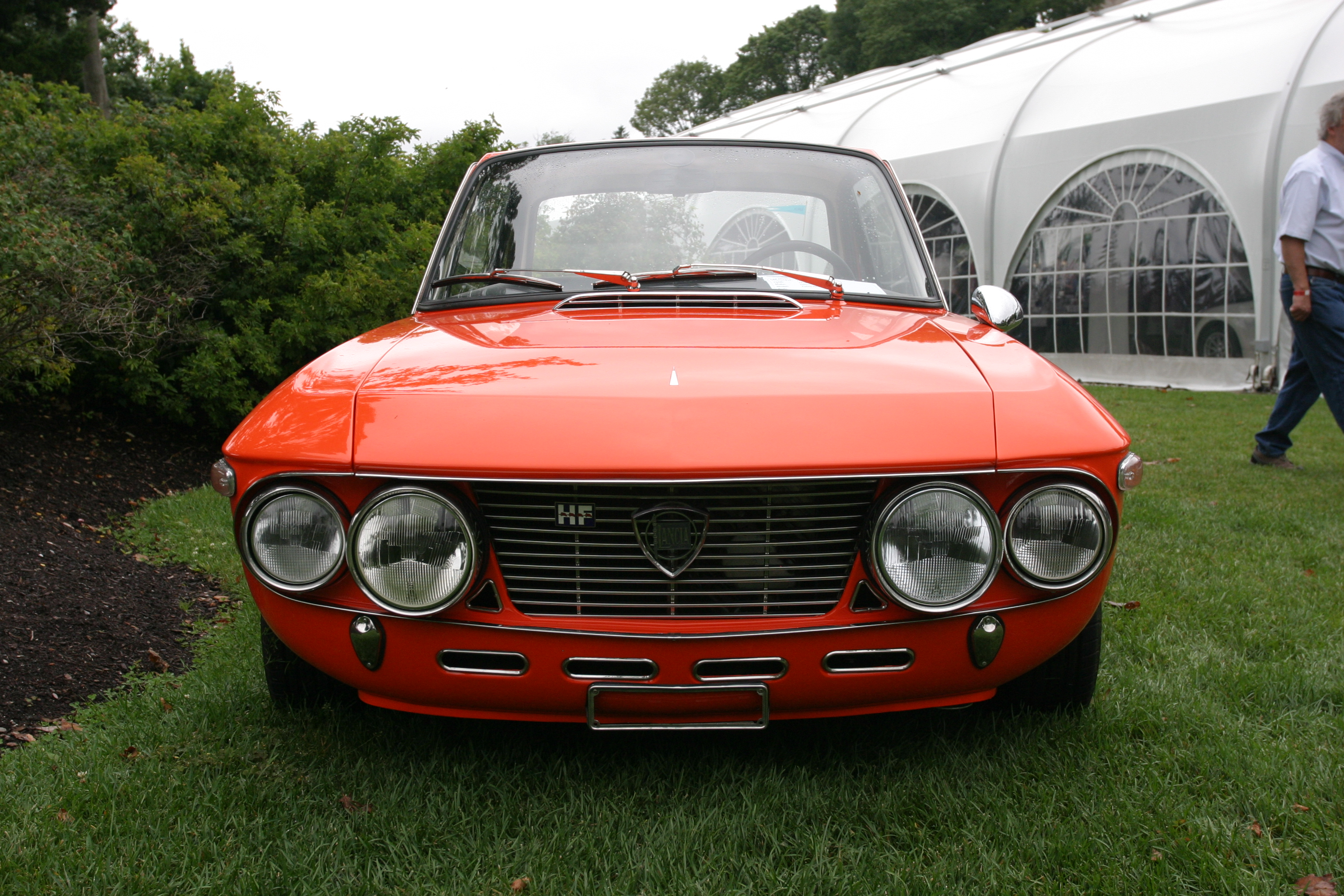 1970 Lancia Fulvia HF Fanalone, photographed during the North Shore Concours d'Elegance at the Misselwood Estate of Endicott College in Beverly, Massachusetts.